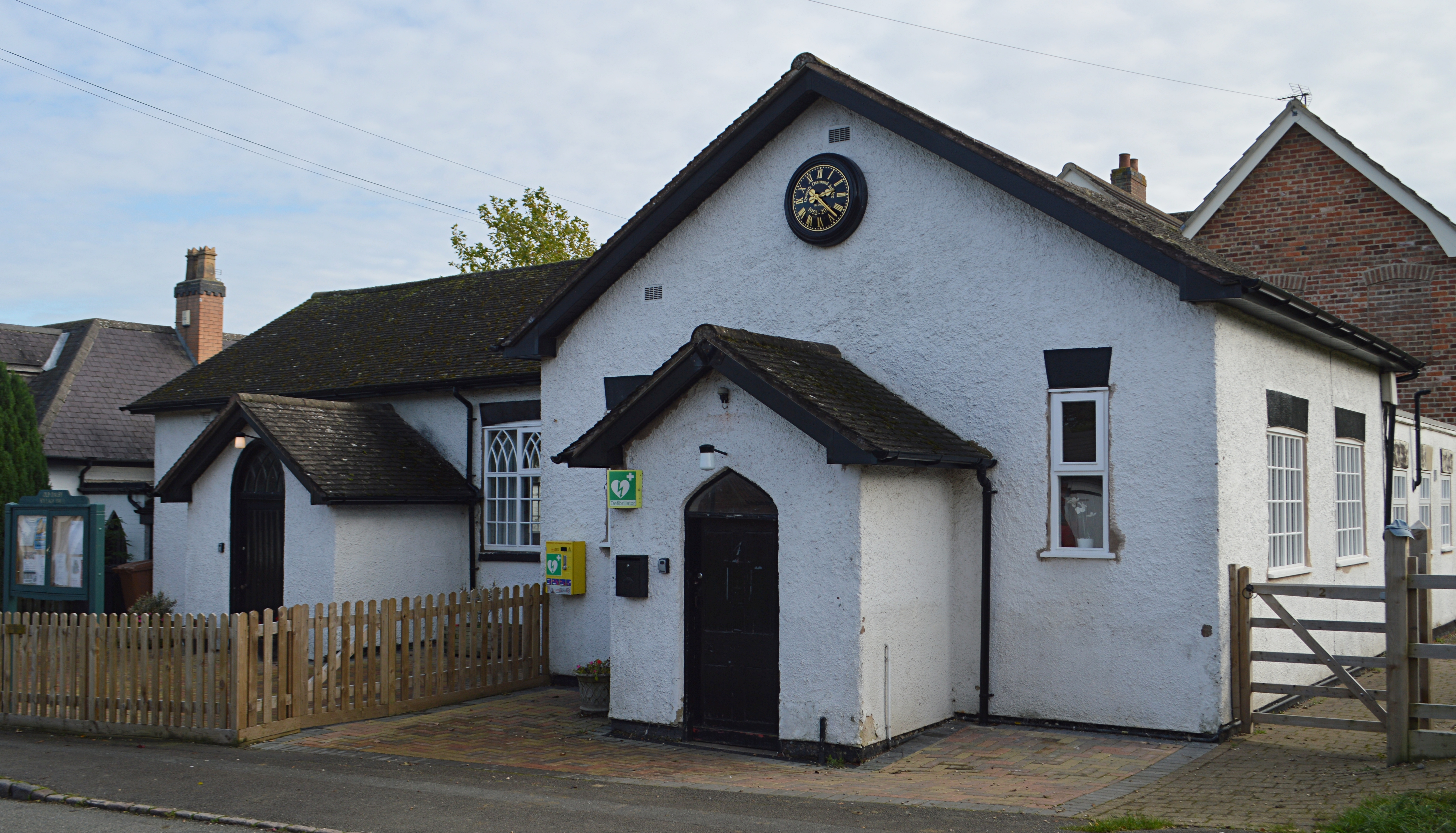 At 4 Main Street Old Dalby, the Village Hall provides for a variety of community uses including meetings, concerts, choir practice, dinners and breakfasts, drop in and Sunday papers.